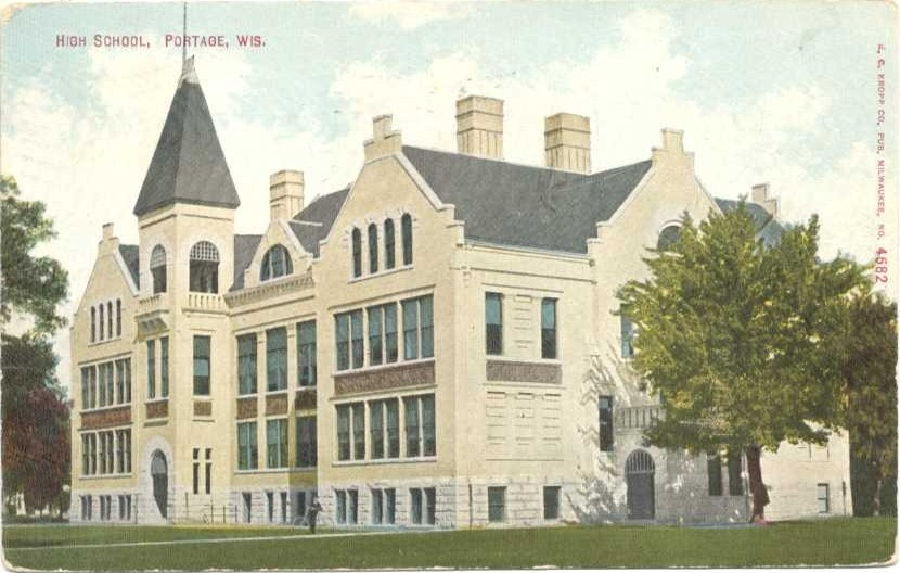 Postcard: Portage High School in Portage, Wisconsin, 1911